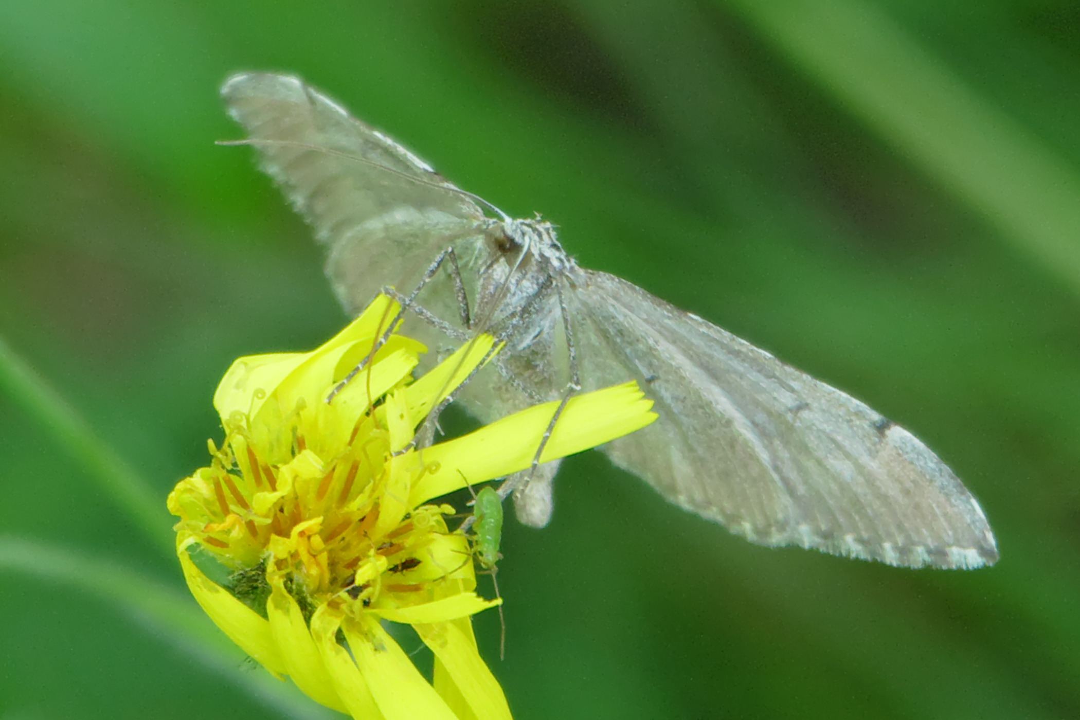 Treble-bar in the Harz, Germany